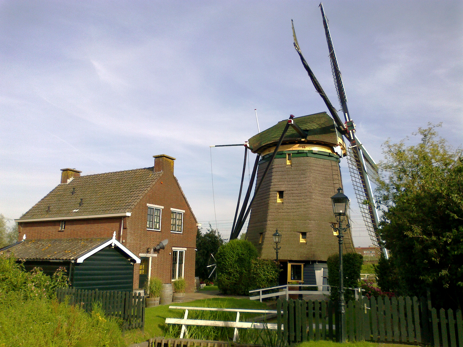 The "Nieuwe Veenmolen" windmill at the "IJsclubweg 111" in The Hague, dating from 1654